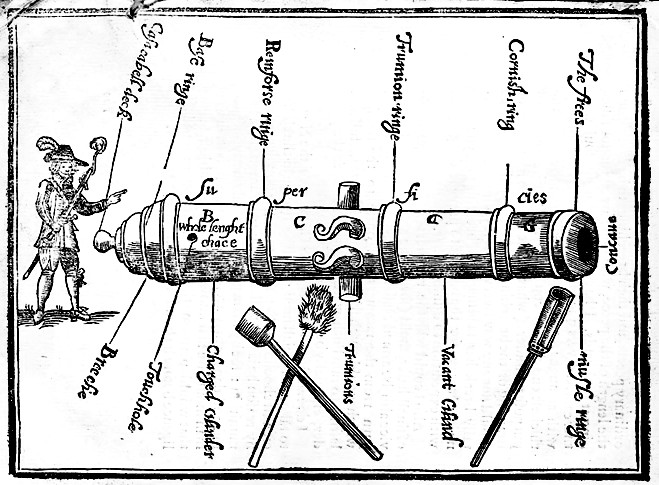 An engraving (rotated 90° clockwise) showing the parts of a cannon, from the page facing page 25 of John Roberts' The Compleat Cannoniere (1652).